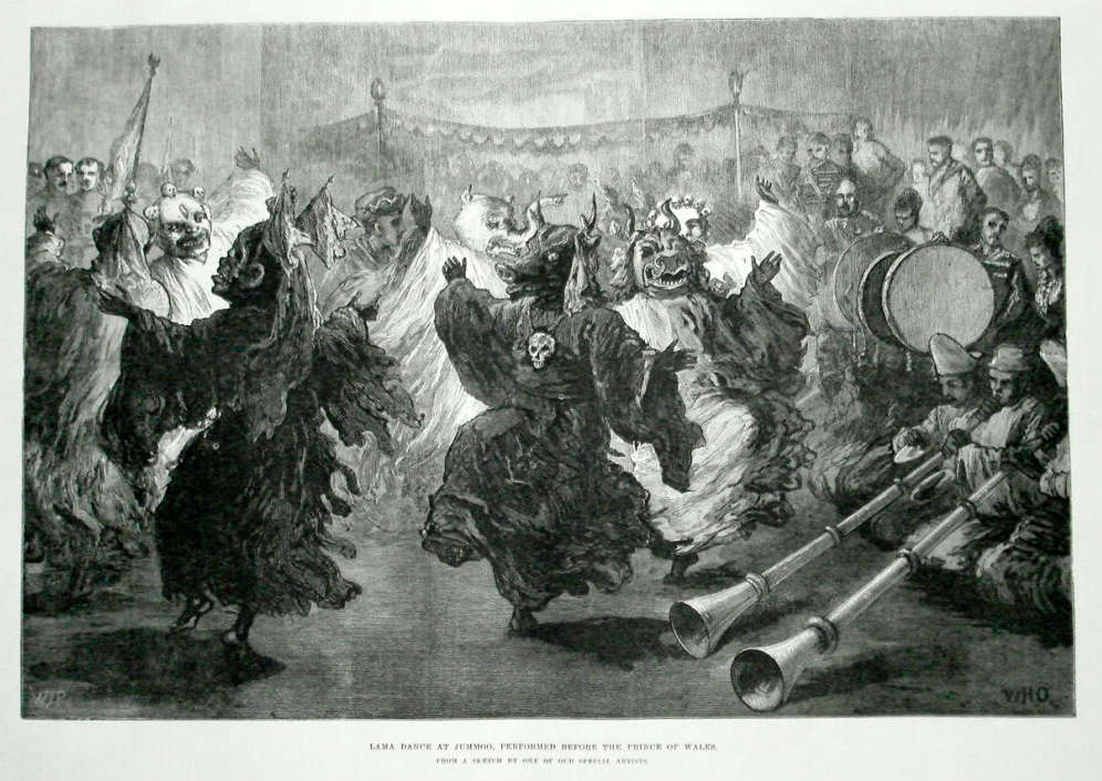 "Lama dance at Jummoo, performed before the Prince of Wales," from the Illustrated London News, 1876